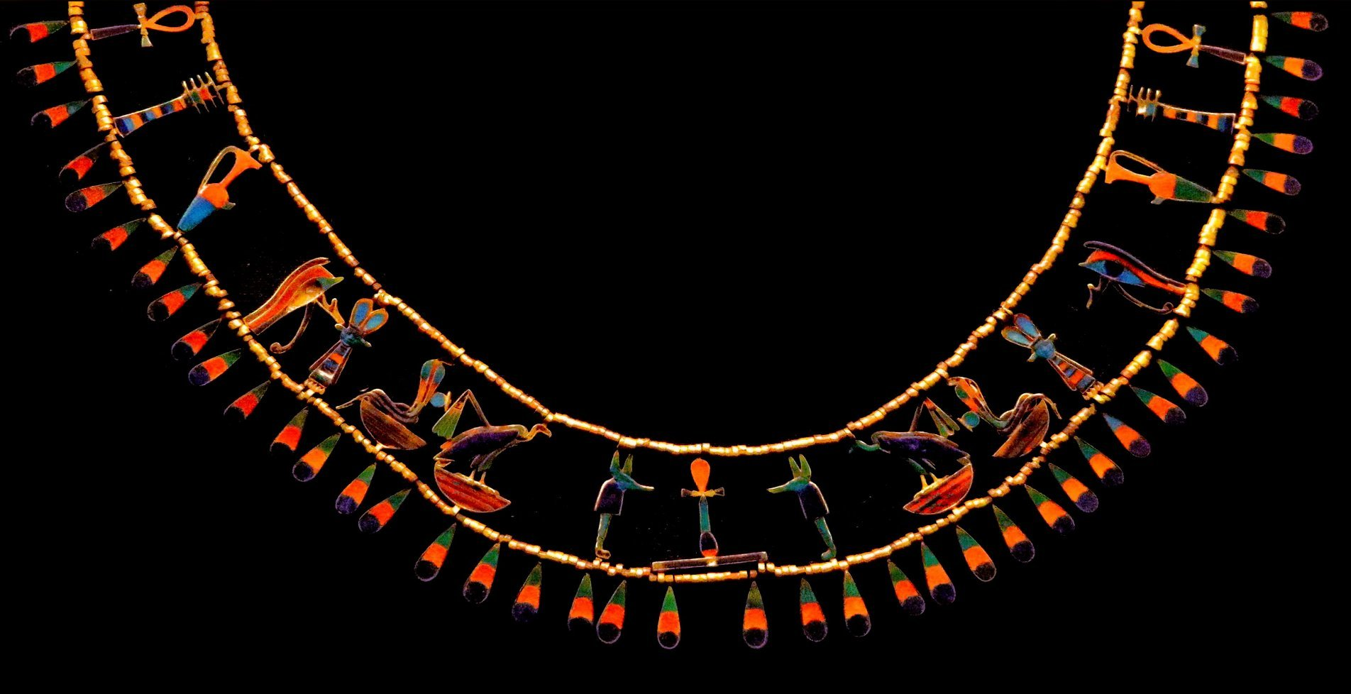 A necklace of Princess Khenmet or Khnumit—called "the king's daughter" in her royal titles--a daughter of presumably pharaoh Amenemhat II of the 12th dynasty Middle Kingdom era of Egypt. Amenemhat II ruled during the 19th century BCE over Egypt. Princess Khenmet/Khnumit was buried in Amenemhat II’s pyramid complex and, considering the 35 year reign of this king, it is believed that she must have been this king's daughter. The sarcophagus, mummy and funerary equipment of this princess was found intact near the pyramid of her father at Dahshur by Jacques de Morgan in 1894. This object's catalogue number is JE 31113 and it is today located in the Egyptian Museum in Cairo.